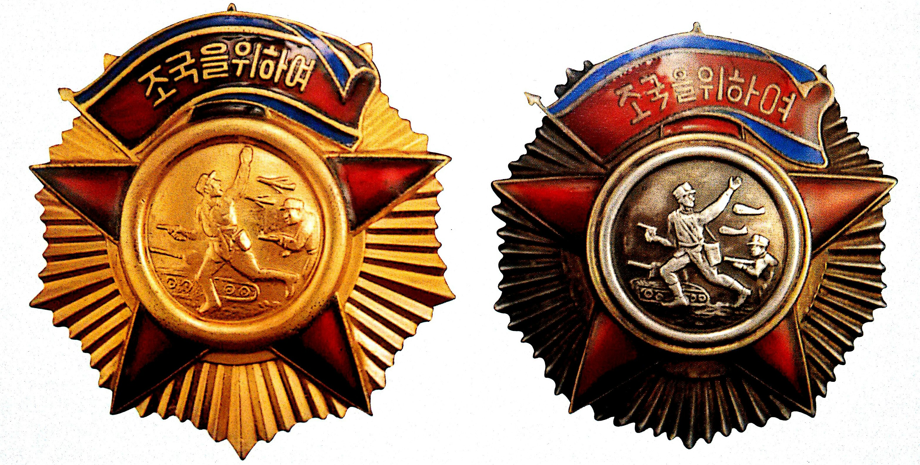 Order of the Freedom Independence 조선말: 자유독립훈장